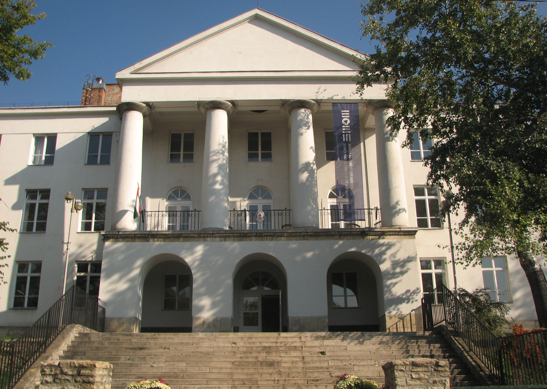 Moholy-Nagy University of Arts and Design, Budapest. Architects: Farkasdy Zoltán, Limpek Jolán, Mináry Olga, Mészáros Géza